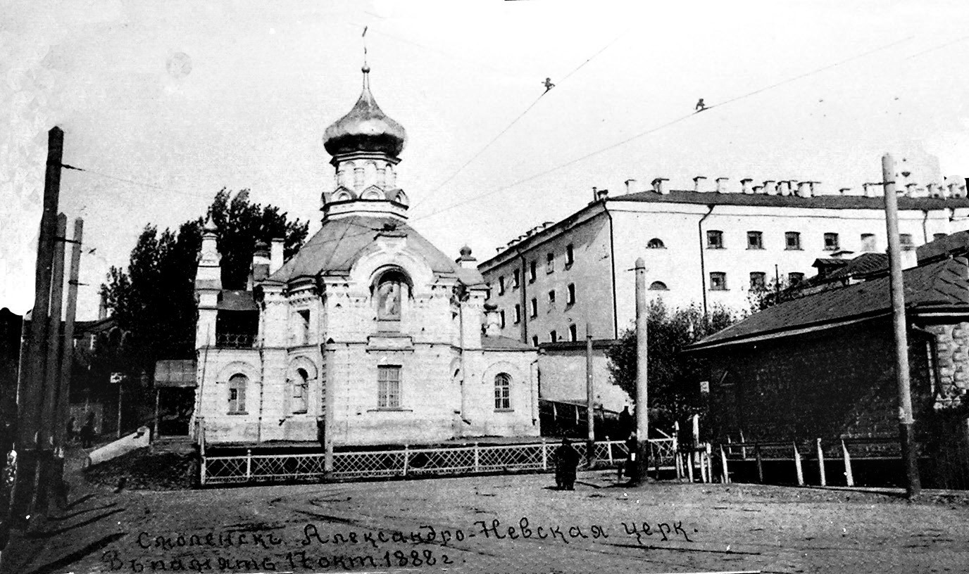 Alexander Nevsky Church in Smolensk (no longer exists).